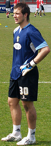 Cameron Belford. Image cropped from original at flickr.